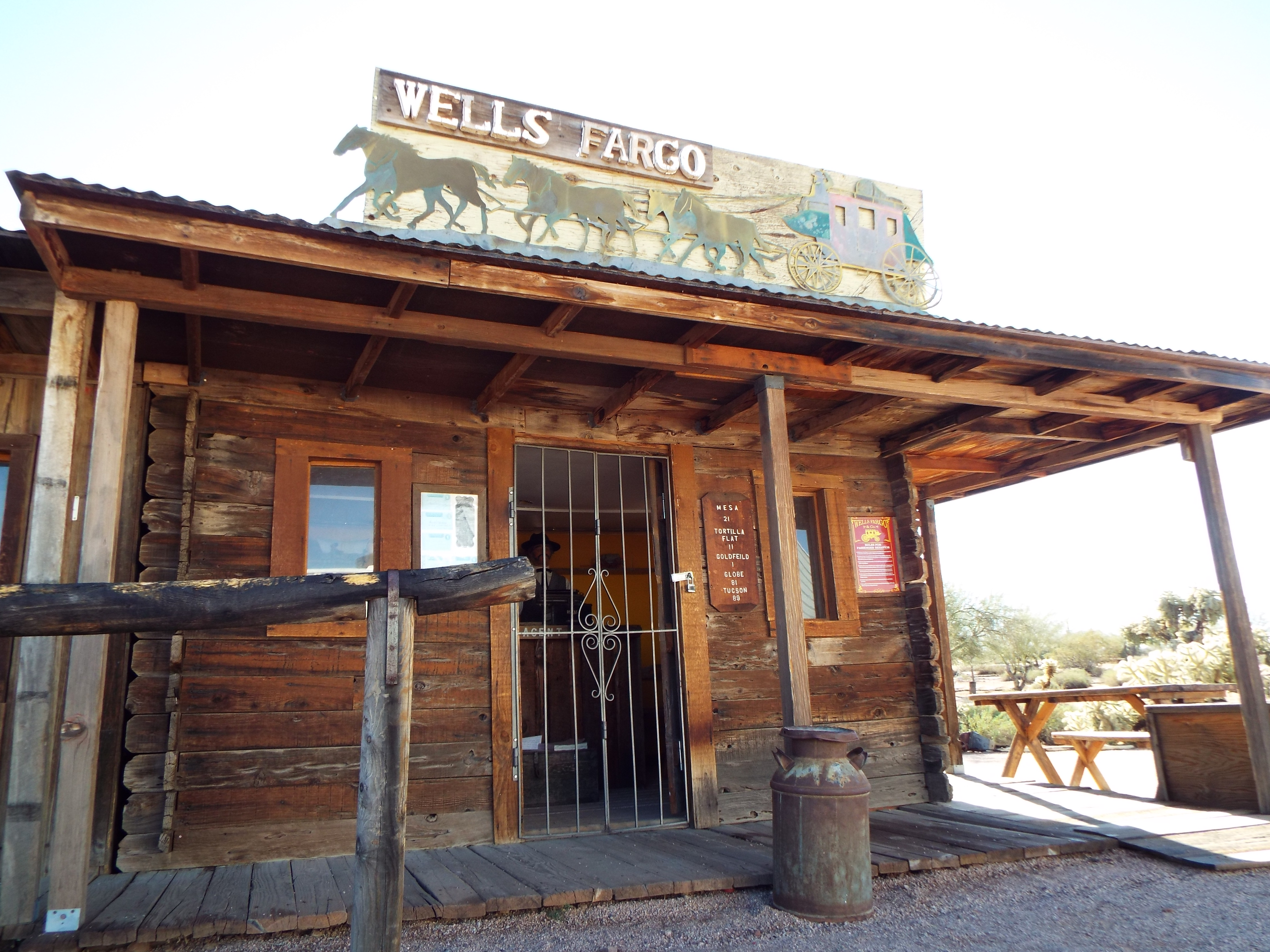 A 19th Century Wells Fargo Bank replica located on the grounds of Superstition Mountain Museum located at 2087 N. Apache Trail in Apache Junction, Az.